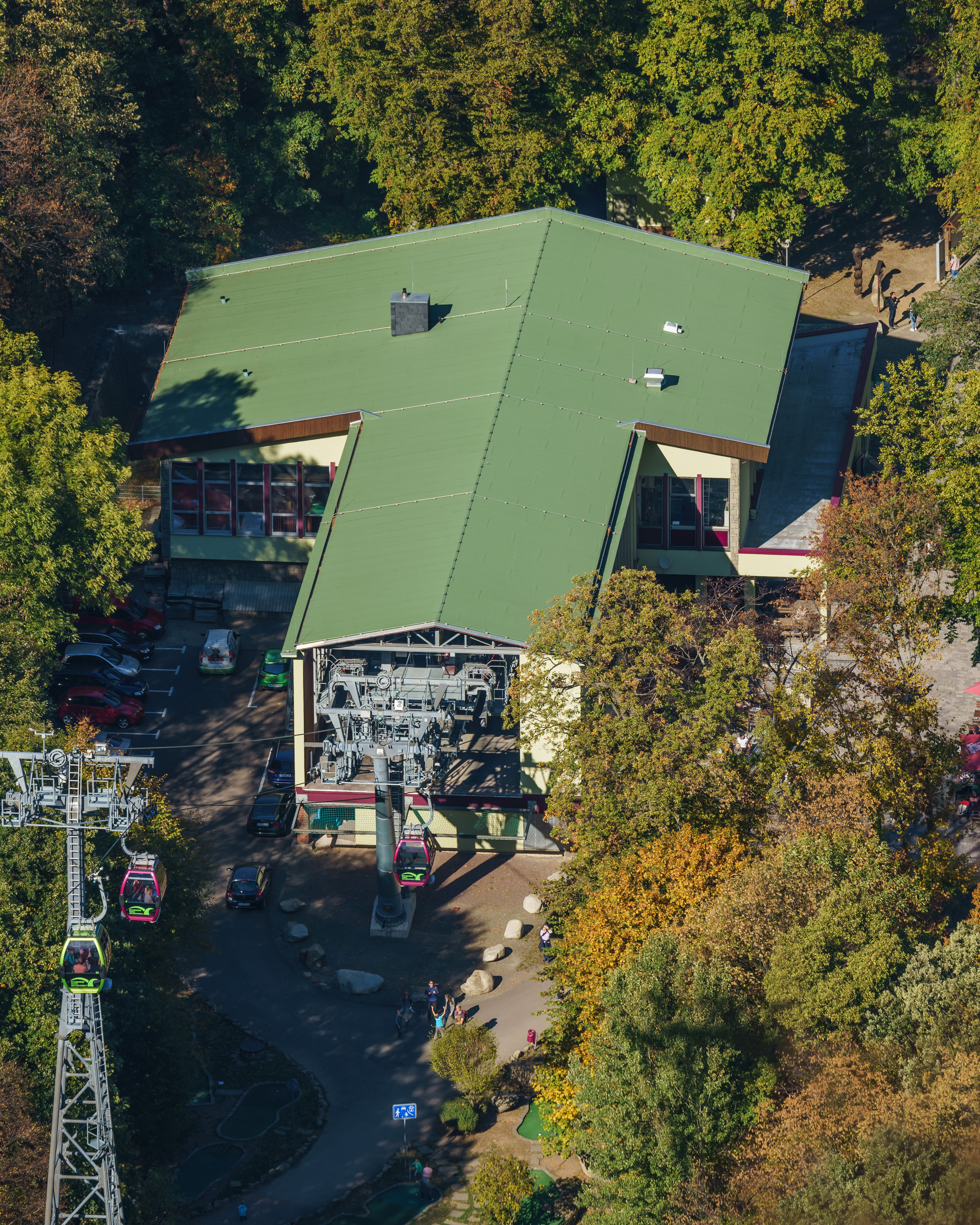 View from Witches' Point in Thale, Germany